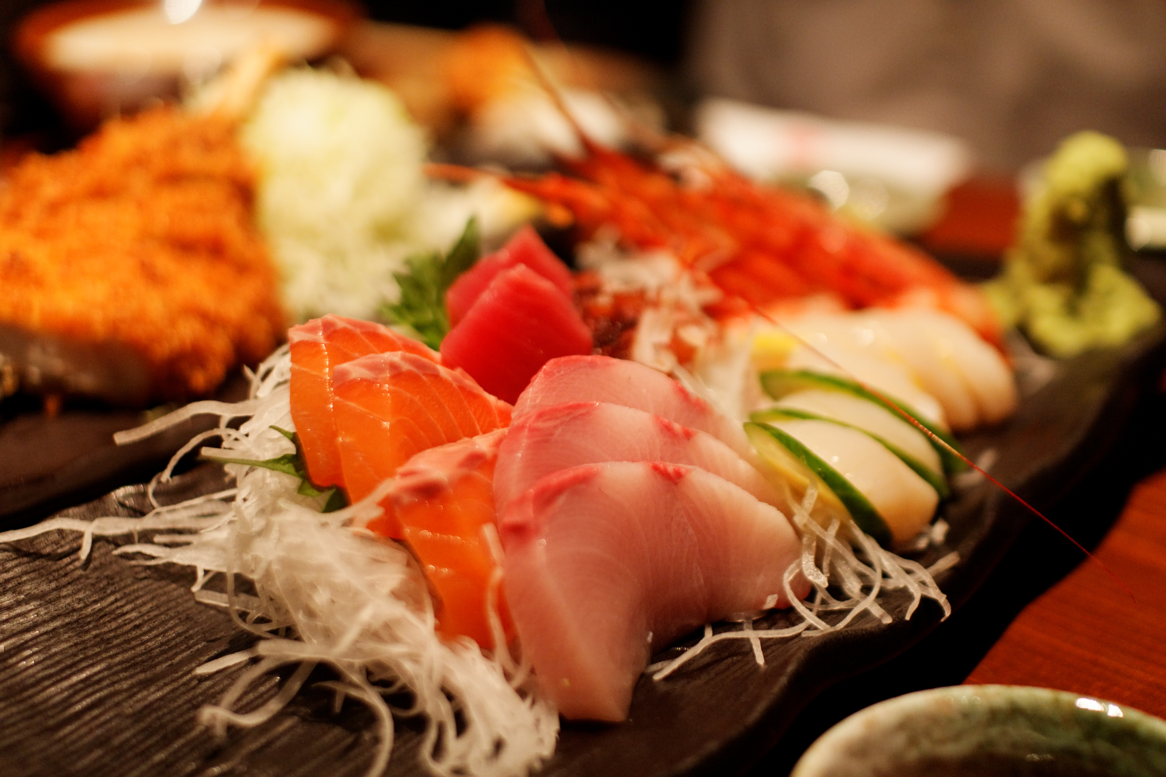 Sashimi platter